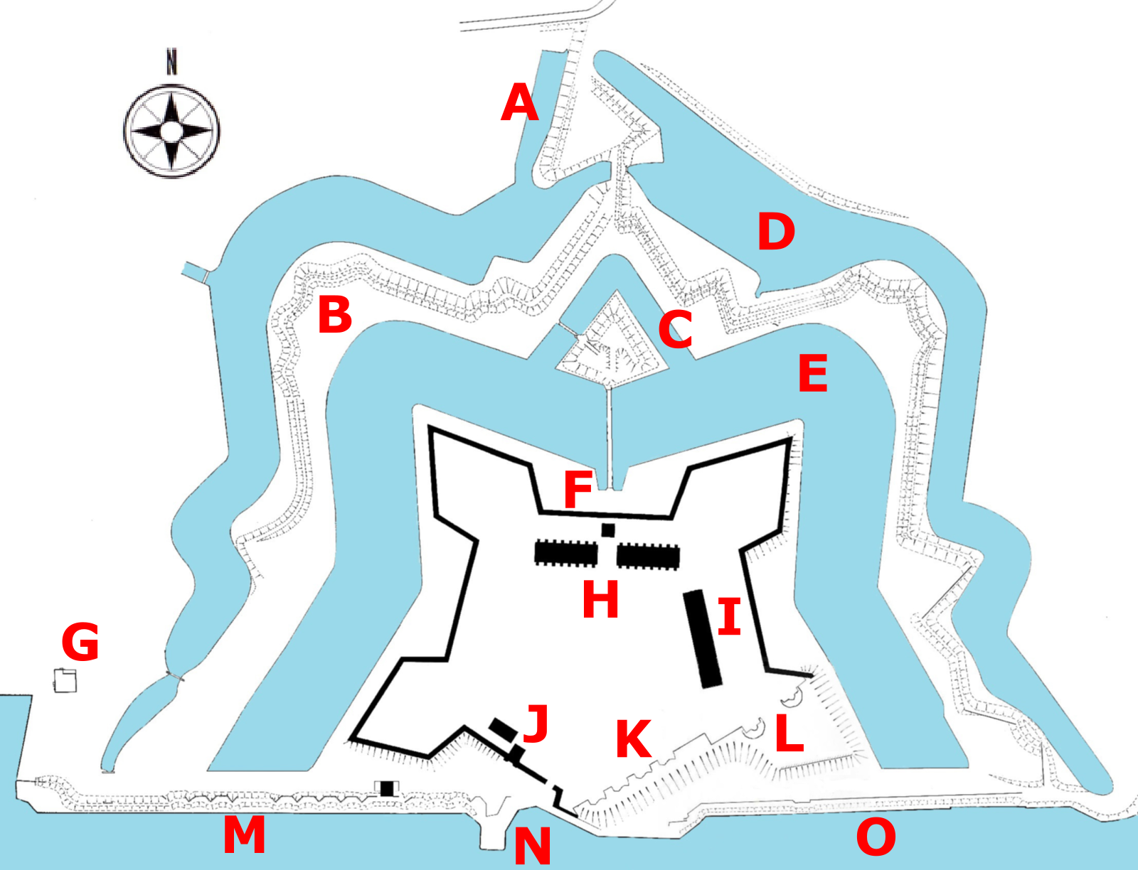 Tilbury Fort, modern plan